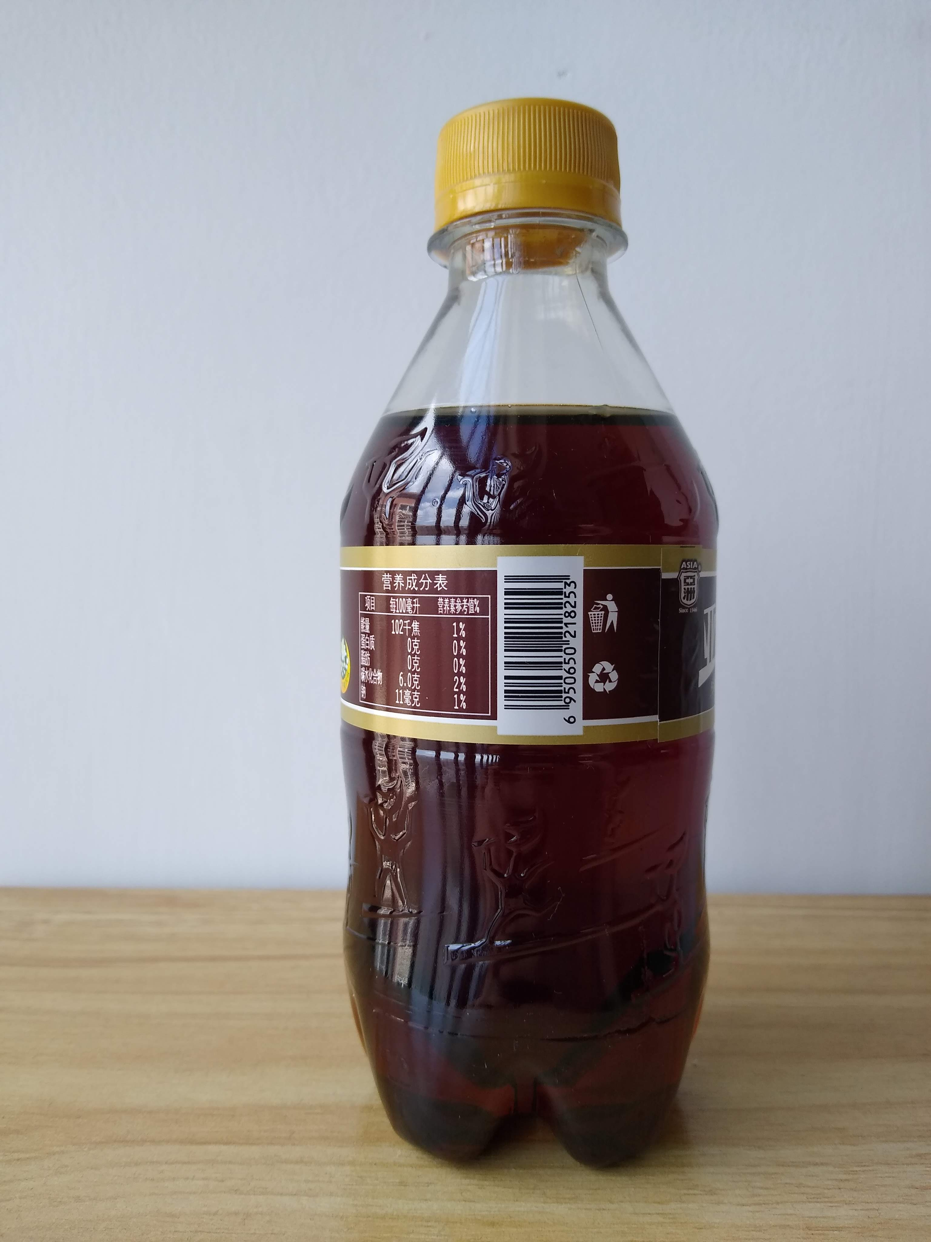 A 300-mL bottle of Asia Sarsae (亚洲沙示) sold in China. See also File:Glass of Asia Sarsae.jpg.